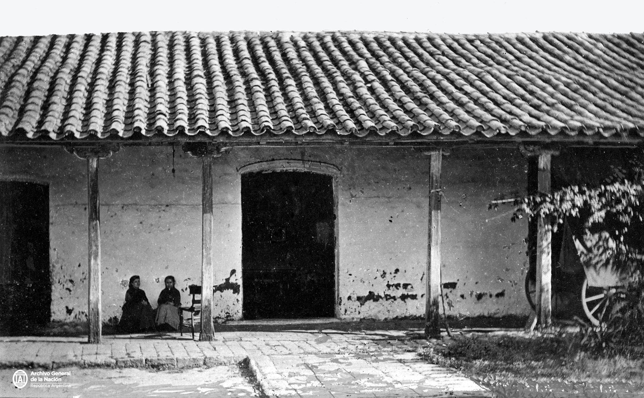 "Casa Histórica de Tucumán": entrance door to the room where the Independence of Argentina was declared in 1816.